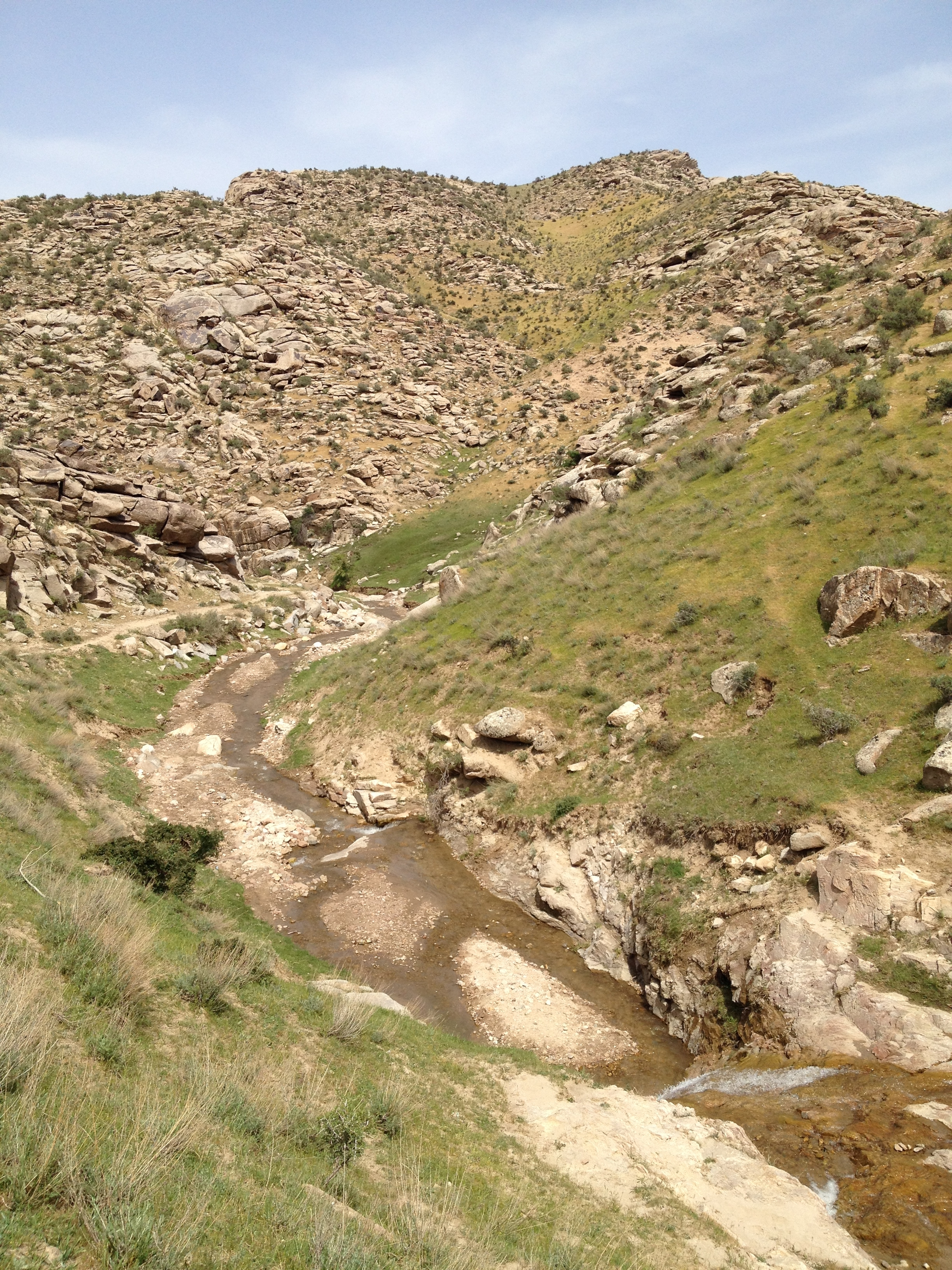 Kirich Say, right tributaryof Jiltema Say